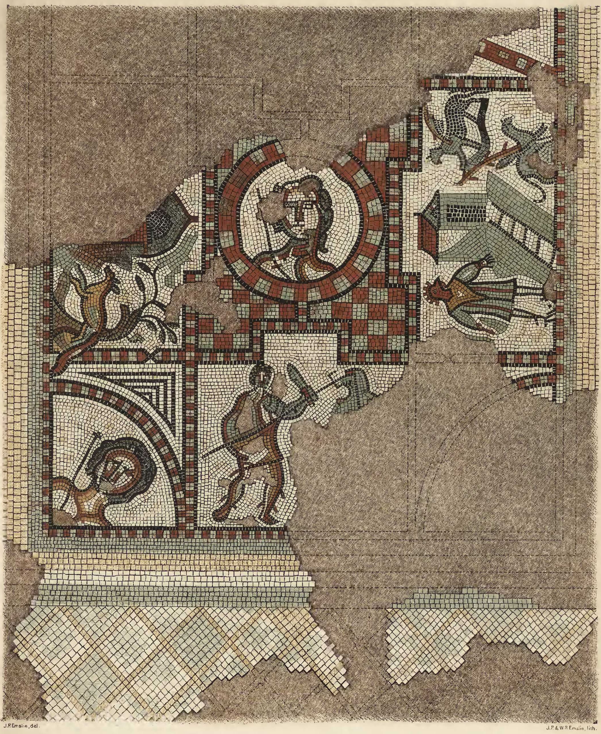 Mosaic found in the Roman villa at Brading